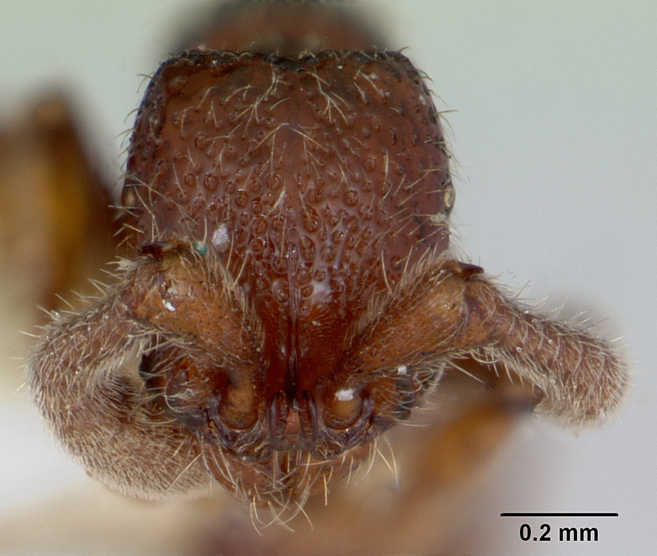 Head view of ant Sphinctomyrmex stali specimen casent0173063.